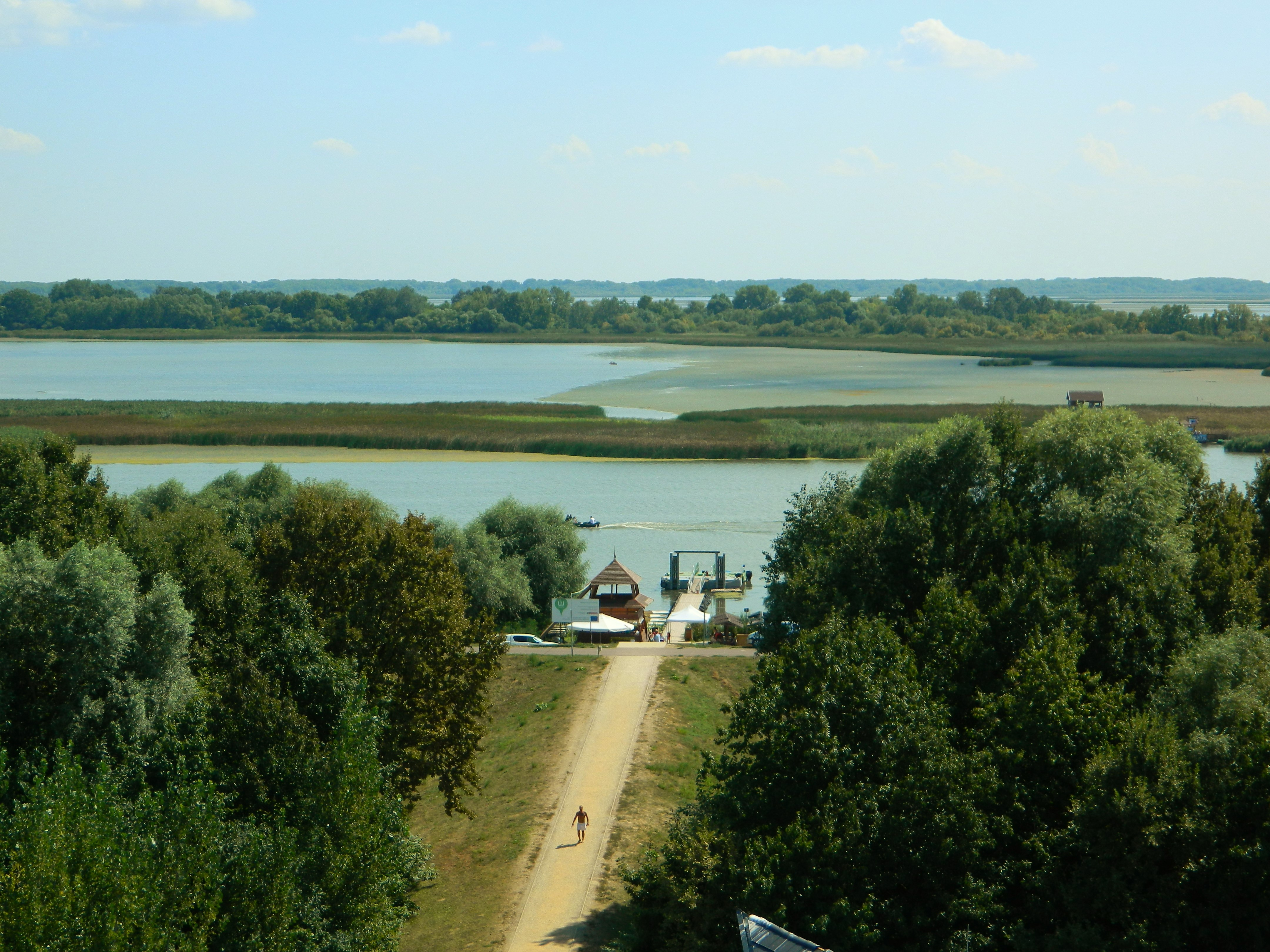 Poroszló "Lake Tisza" ecological center, landing stage